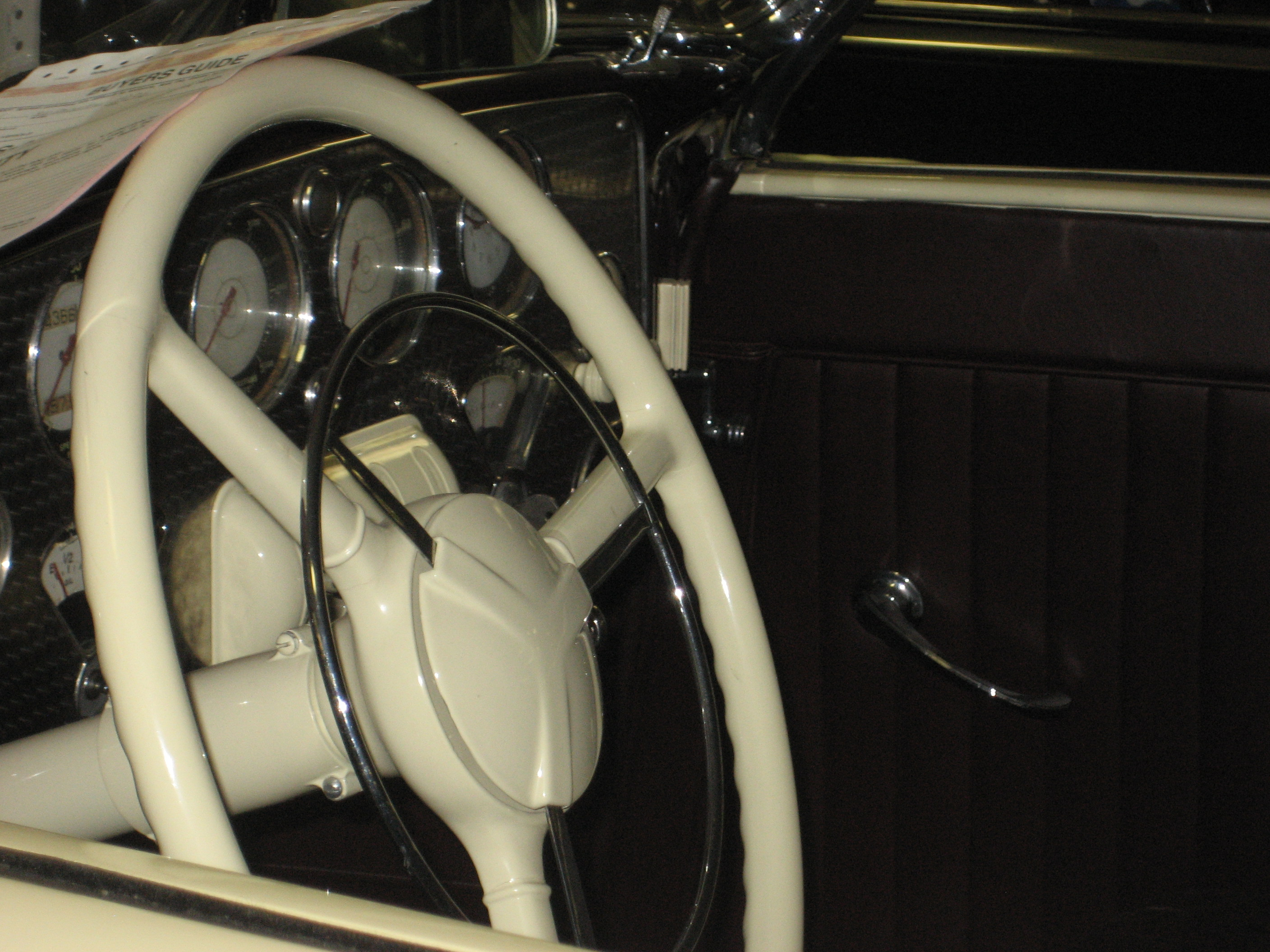 1936 Cord 810 Convertable Phaeton on display at Tallahassee Automobile Museum.